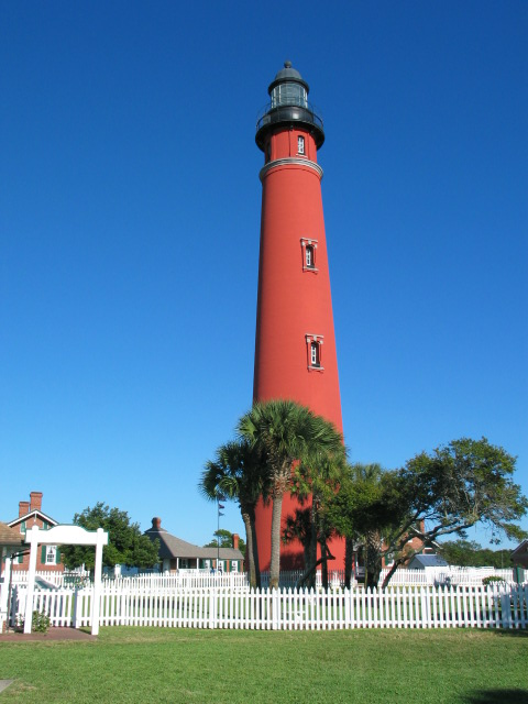 Ponce Inlet Lighthouse